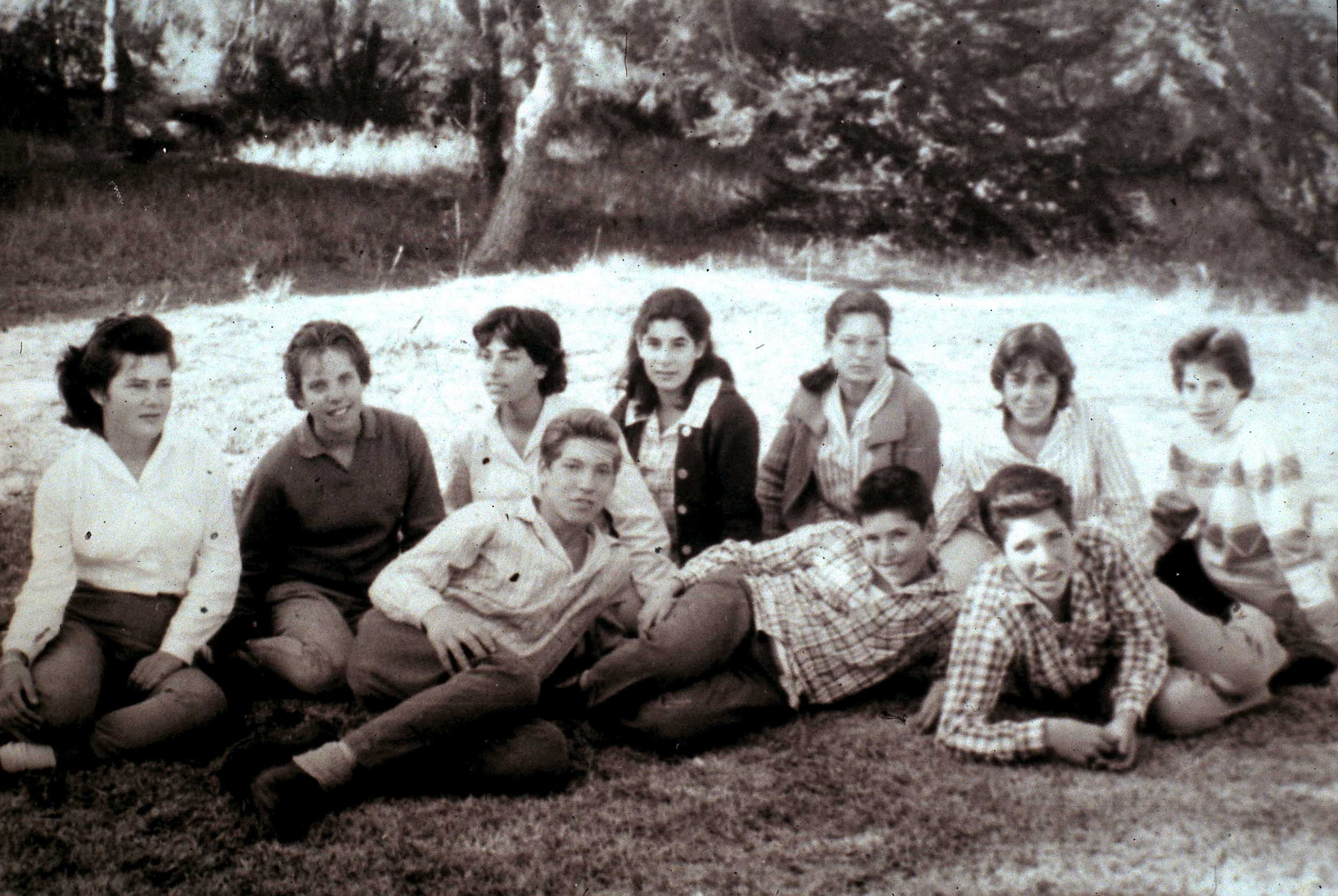 Children in the kibutz, Education in Israel